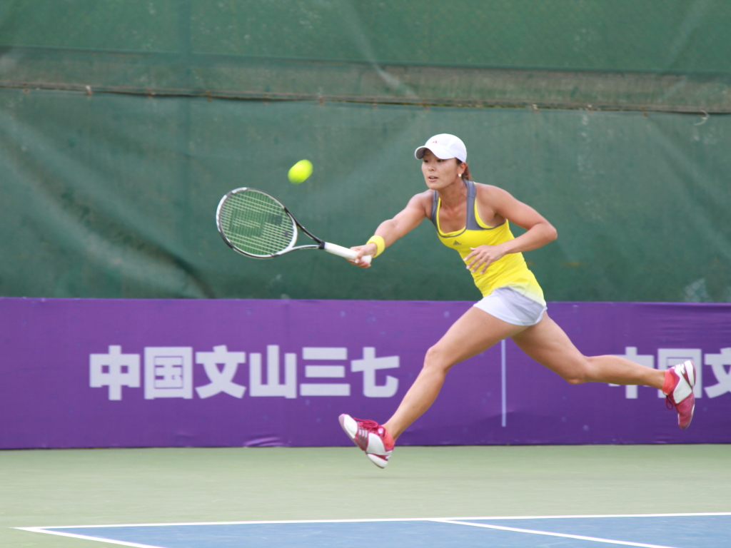 Miki Miyamura at the 2013 ITF Women's Circuit – Wenshan tournament